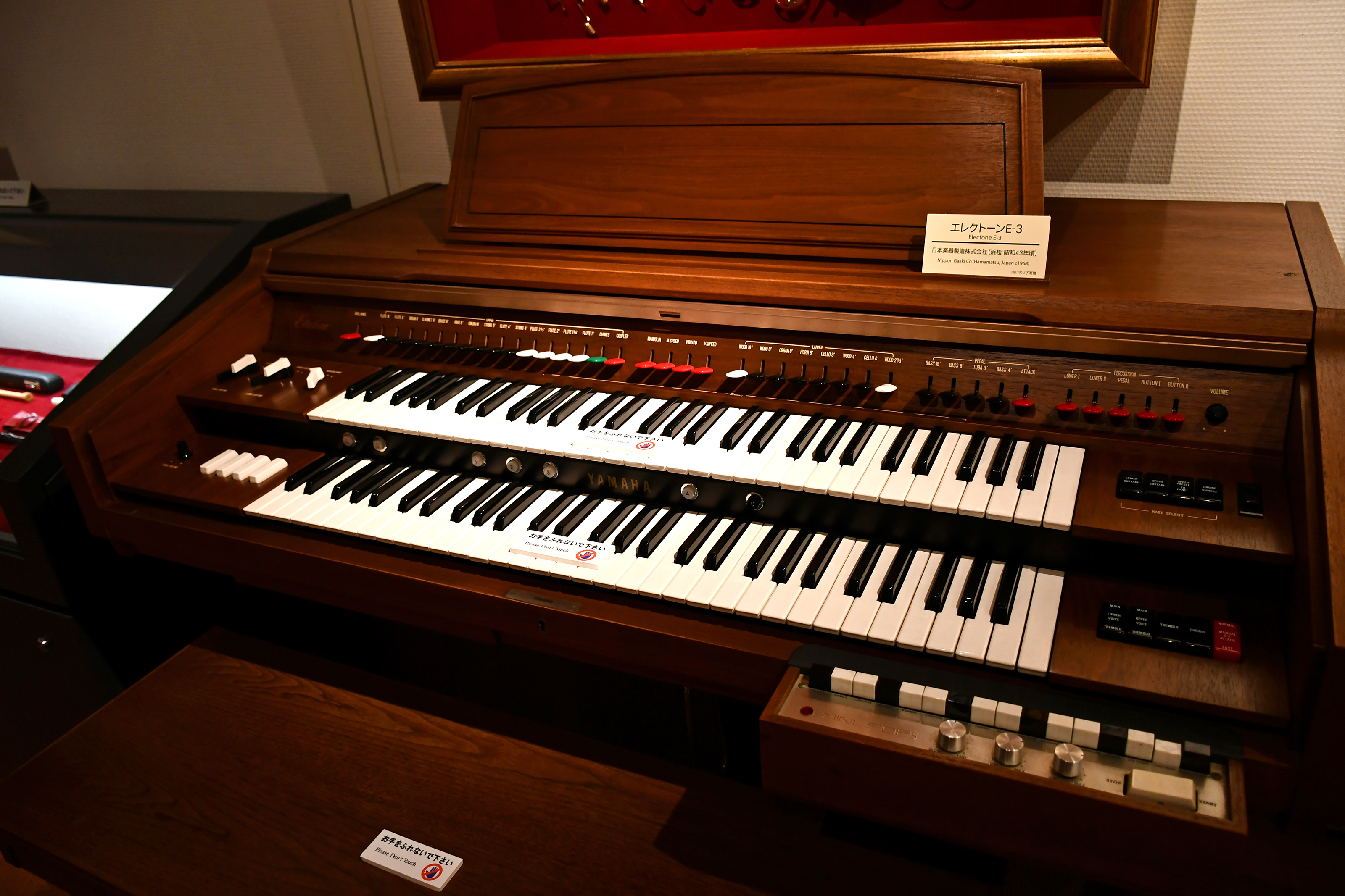 Vintage Yamaha Electone E-3.